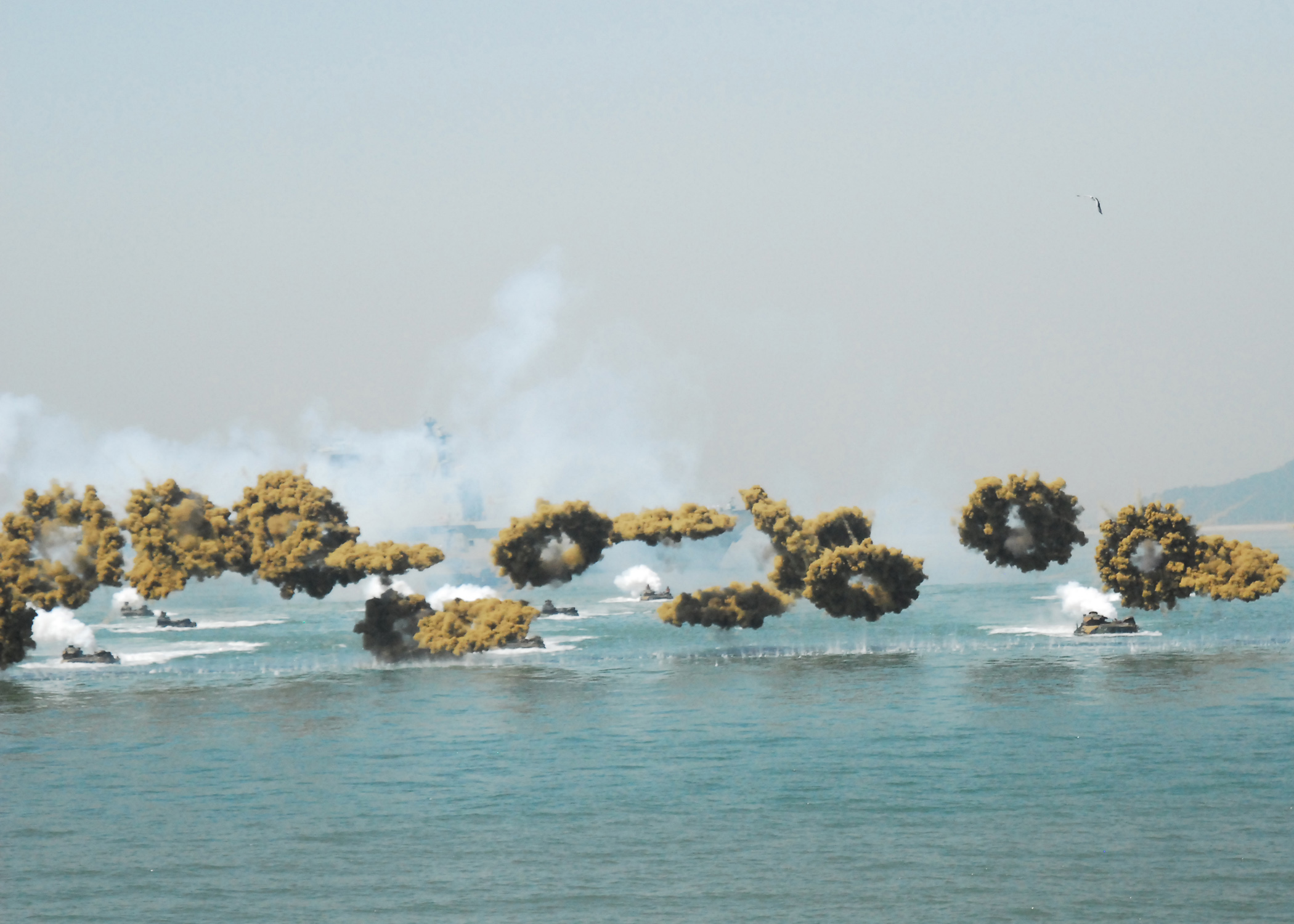 INCHEON, Republic of Korea (Sept. 15, 2010) Amphibious assault vehicles from the 31st Marine Expeditionary Unit (31st MEU) and the Republic of Korea (ROK) Marine Corps launch smoke grenades during a demonstration for the 60th anniversary of the Incheon Landing Operation. The 31st MEU is embarked aboard the amphibious transport dock ship USS Denver (LPD 9) completing a scheduled patrol in the western Pacific. (U.S. Navy photo by Lt. Colby Drake/Released)